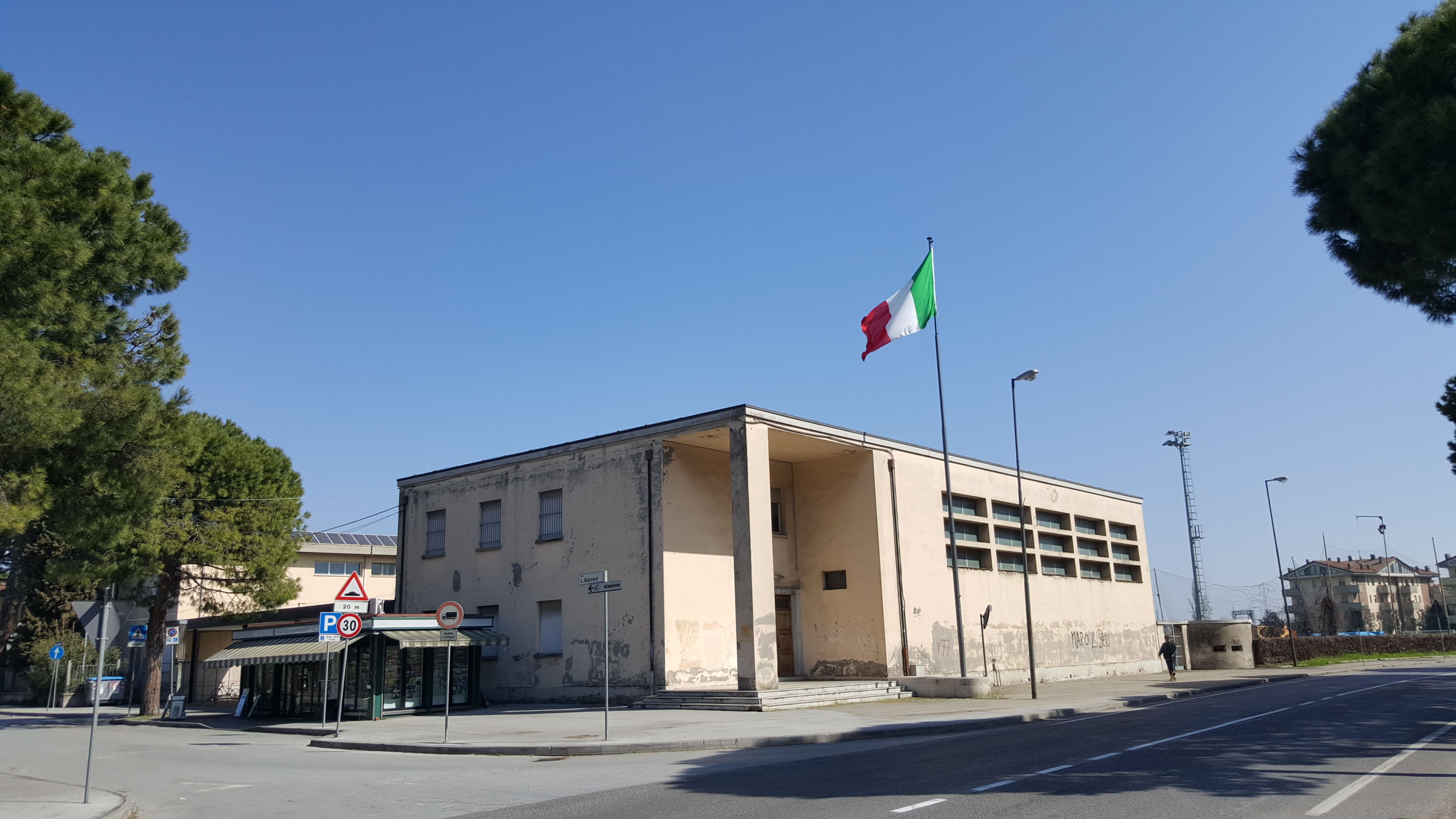 This is a photo of a monument which is part of cultural heritage of Italy.